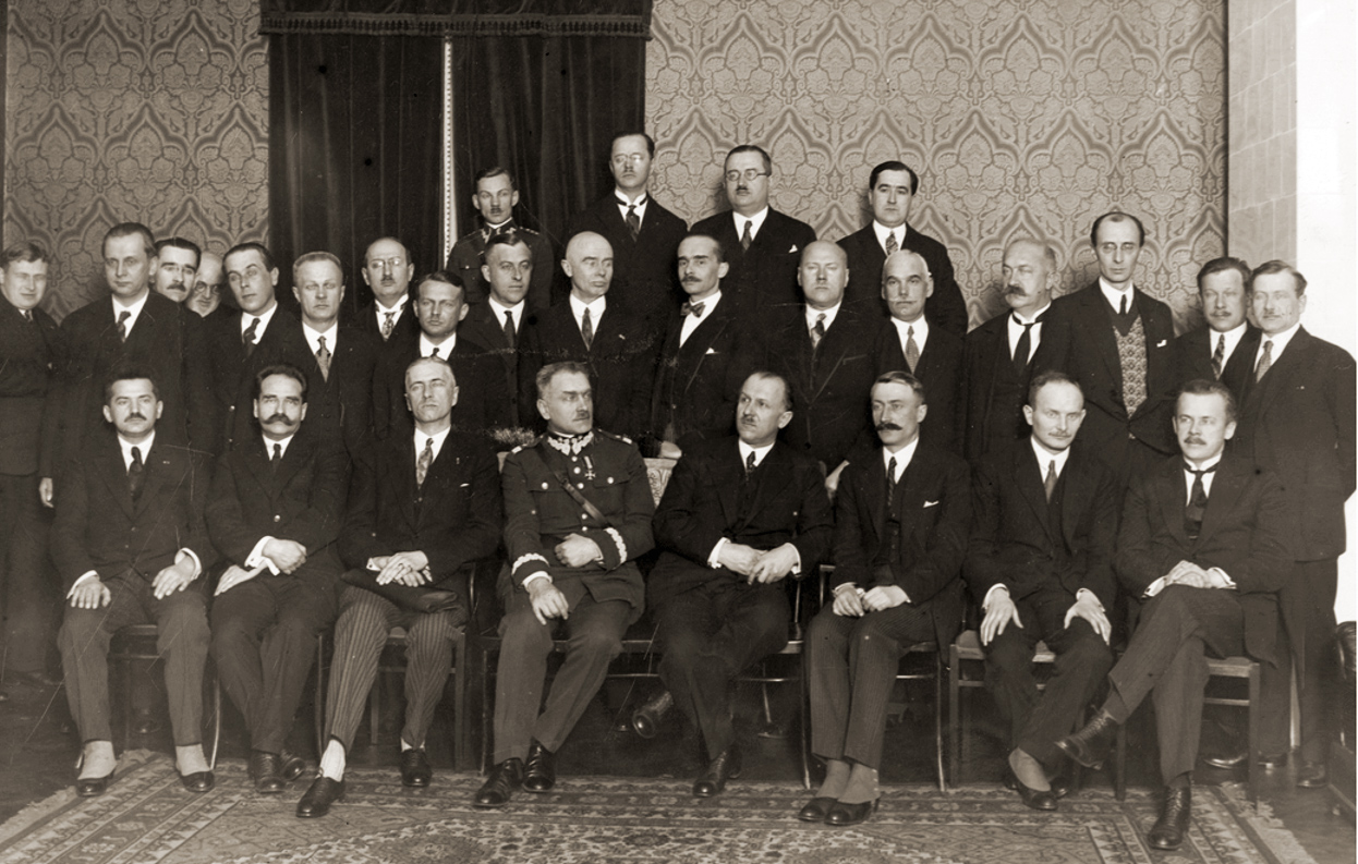 Official meeting of voivods of Poland 1929. Oficjalne spotkanie wojewodów 1929. Siedzą od lewej: wojewoda białostocki Karol Kirst, wojewoda warszawski Stanisław Twardo, wojewoda wileński Władysław Raczkiewicz, minister spraw wewnętrznych Felicjan Sławoj Składkowski, premier Kazimierz Bartel, wiceminister spraw wewnętrznych Maurycy Jaroszyński, naczelnik Stanisław Szwalbe, wojewoda nowogródzki Zygmunt Beczkowicz. Stoją w pierwszym rzędzie od lewej: Stanisław Zaćwilichowski, wojewoda poznański Piotr Dunin-Borkowski, wojewoda kielecki Władysław Korsak, wojewoda lubelski Antoni Remiszewski, wojewoda śląski Michał Grażyński, komisarz Rządu na m.st. Warszawę Władysław Jaroszewicz, wojewoda krakowski Mikołaj Kwaśniewski, wojewoda lwowski Wojciech Gołuchowski, wojewoda łódzki Władysław Jaszczołt, dyrektor Departamentu Weiszbort, wojewoda poleski Jan Krahelski, wojewoda pomorski Wiktor Lamot, dyrektor Departamentu Strzelecki, dyrektor Departamentu Zygmunt Zabierzowski. Stoją w ostatnim rzędzie od lewej: kapitan Dąbrowski, sekretarz ministra spraw wewnętrznych Ostrowski, wojewoda stanisławowski Bronisław Nakoniecznikow-Klukowski, radca ministra spraw wewnętrznych Stawicki.